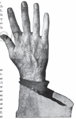 Photograph of "The Hand of Donie Bush"